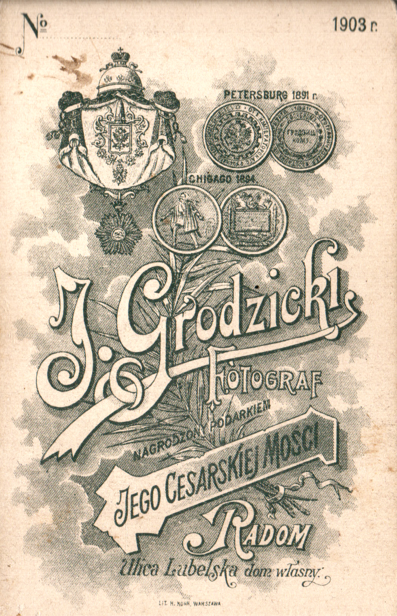 Jóżef Grodzicki (photographer) Radom, Poland, 1903